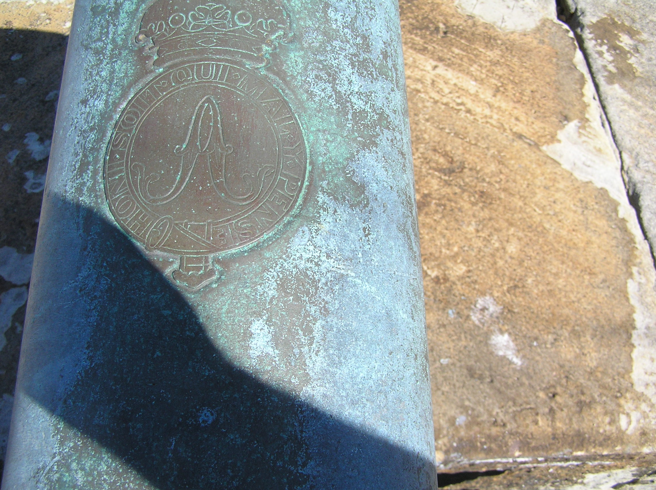 SBML 12-pounder 10 cwt bronze howitzer on Fort Denison, Sydney Harbour. Gun inscription reads : "Honi soit qui mal y pense".